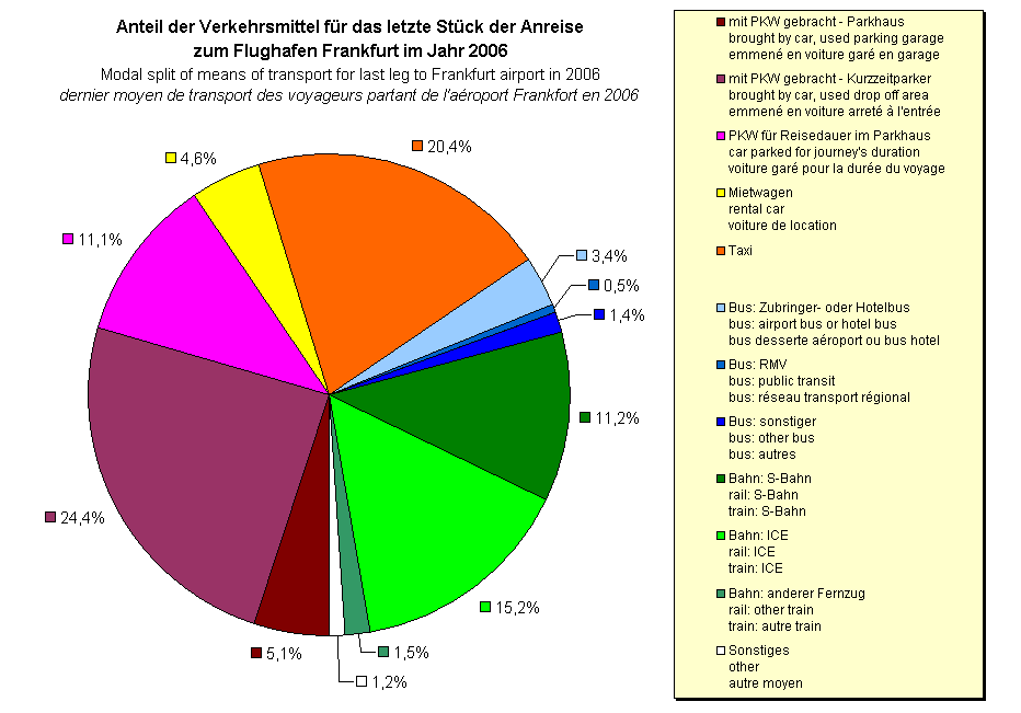 Modal split means of transportation for passengers departing from Frankfurt airport in 2006. Source of data: Fraport. Data based on polls in the departure lounges every four days